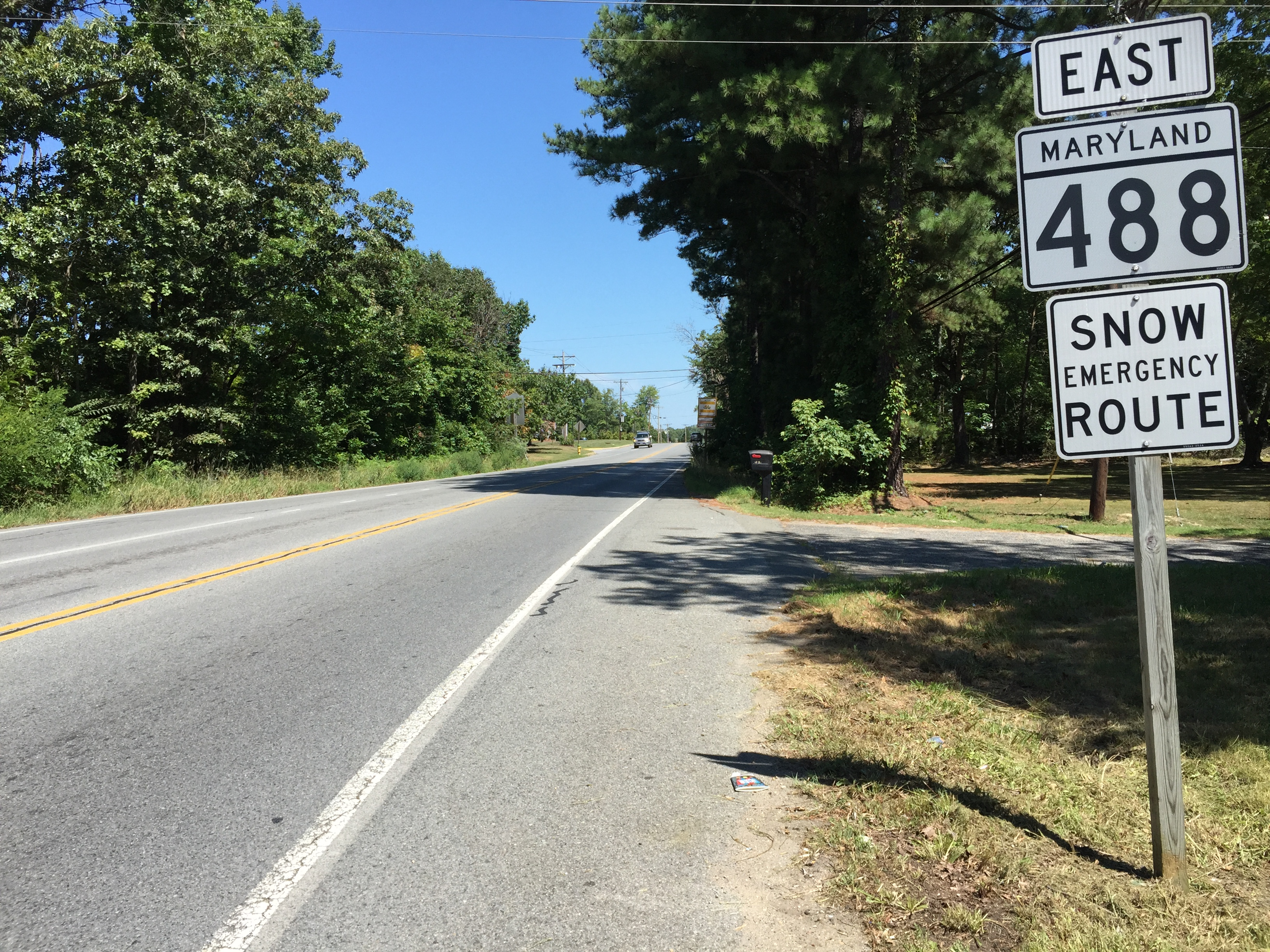 View east along Maryland State Route 488 (La Plata Road) at Maryland State Route 6 (Charles Street) in La Plata, Charles County, Maryland